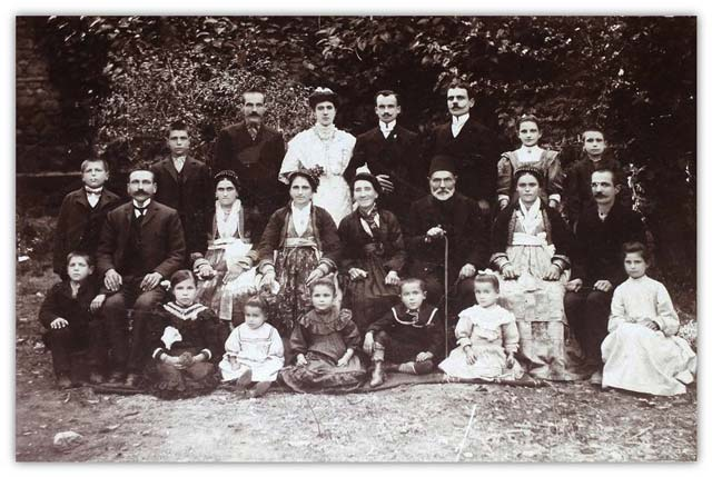 Gounaris Family, Verroia.